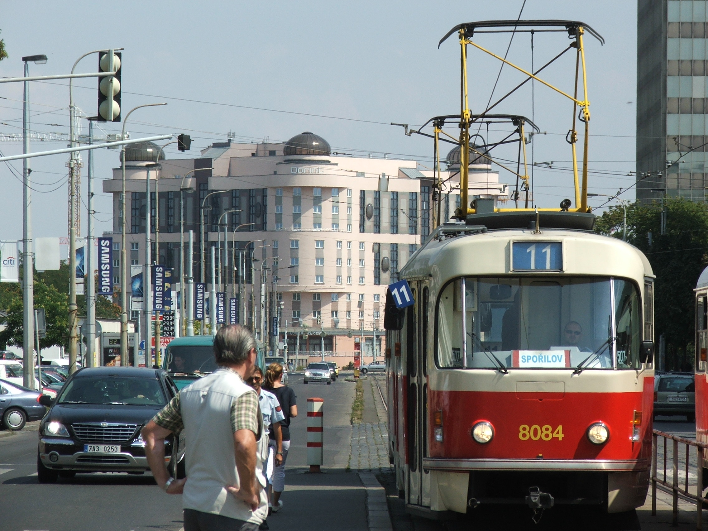 Huge Hotel Dorint Don Giovanni in Prague, Czechia close to "metro" station Želivského.